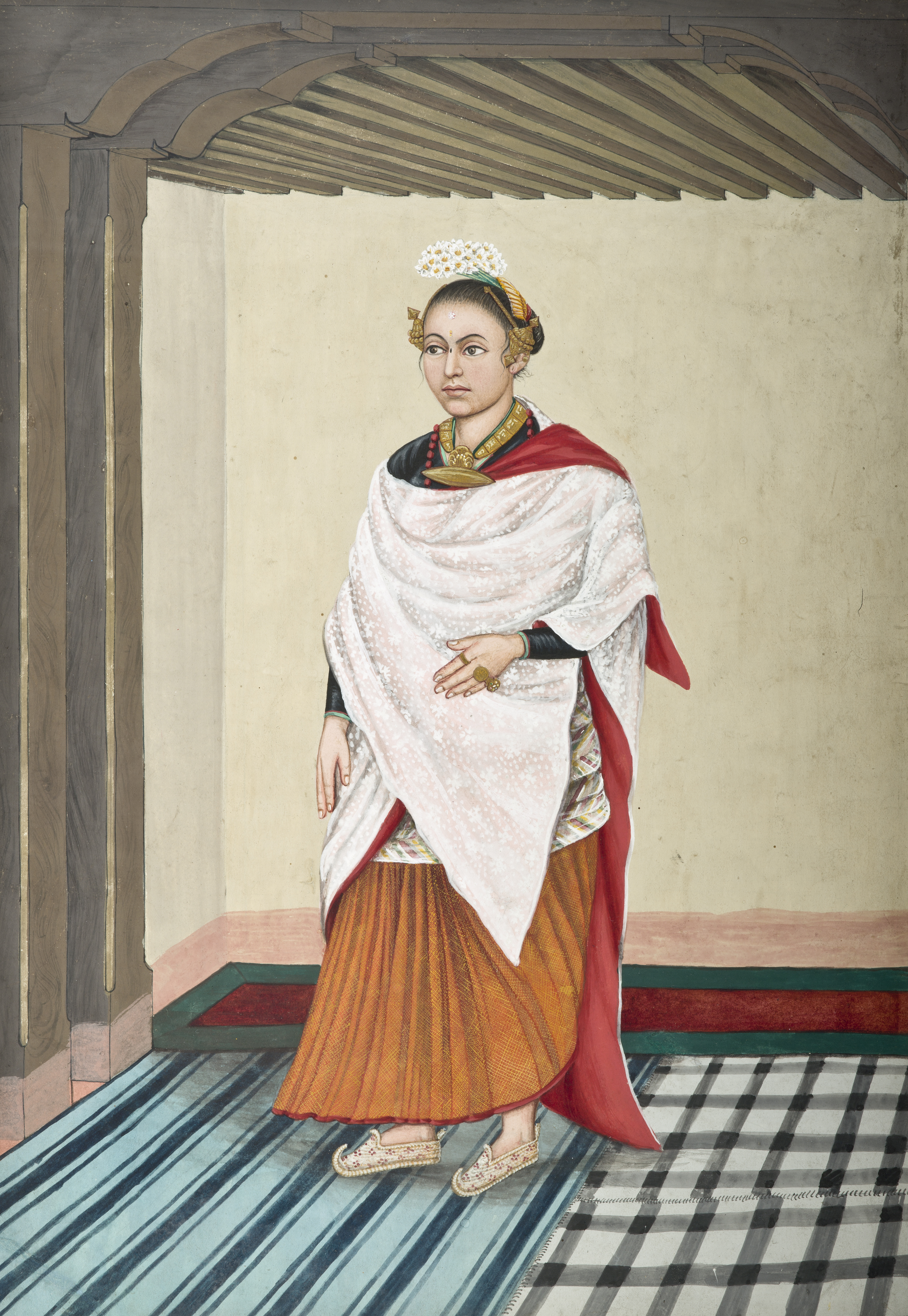 Nepal, circa 1860-1900 Drawings; watercolors Opaque watercolor and gold on paper 18 1/2 x 12 3/4 in. (47 x 32.4 cm) Gift of Fabio Rossi (M.91.134) South and Southeast Asian Art